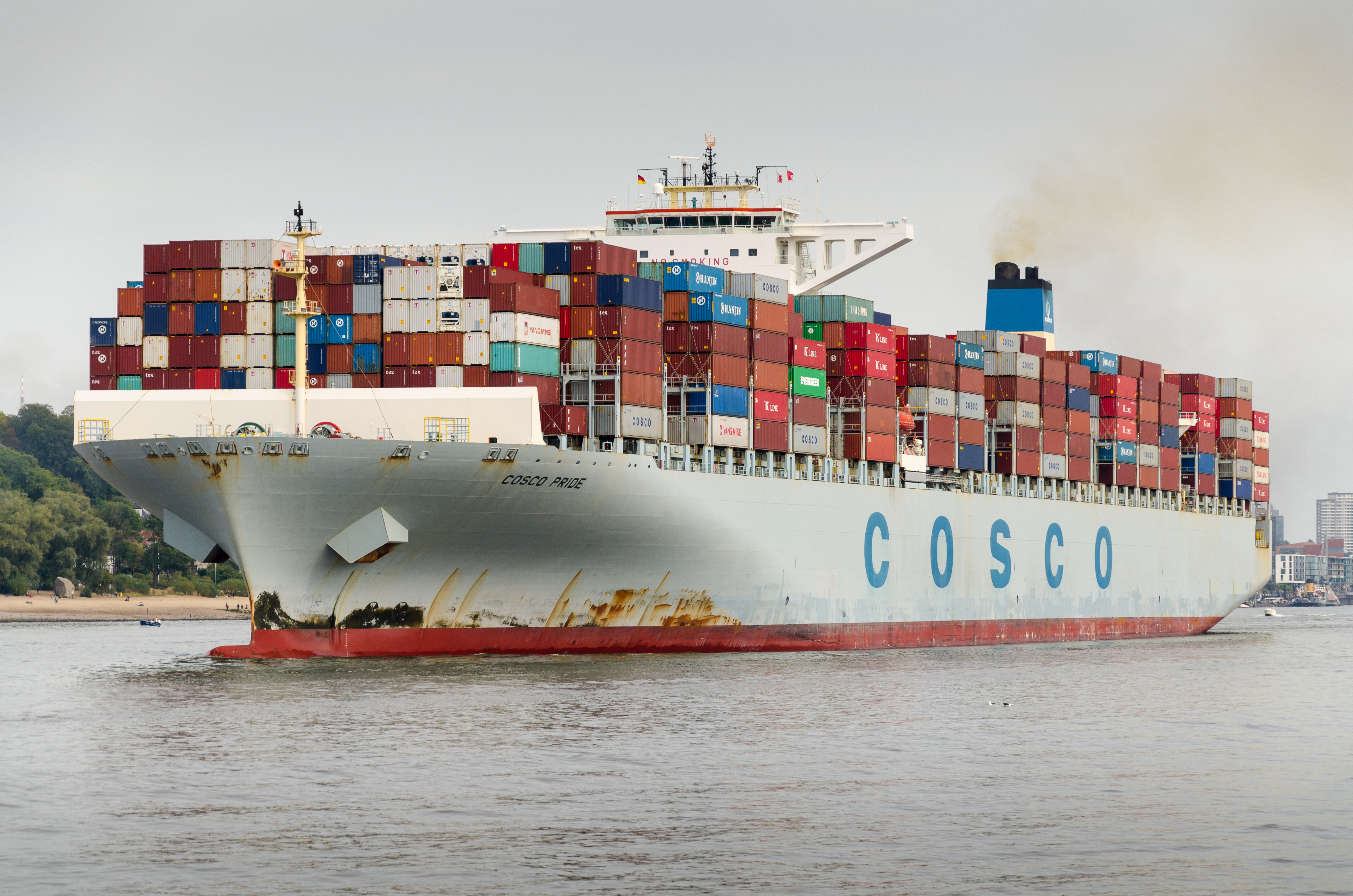 Container ship "Cosco Pride" (IMO 9472153) departing Hamburg, Germany.